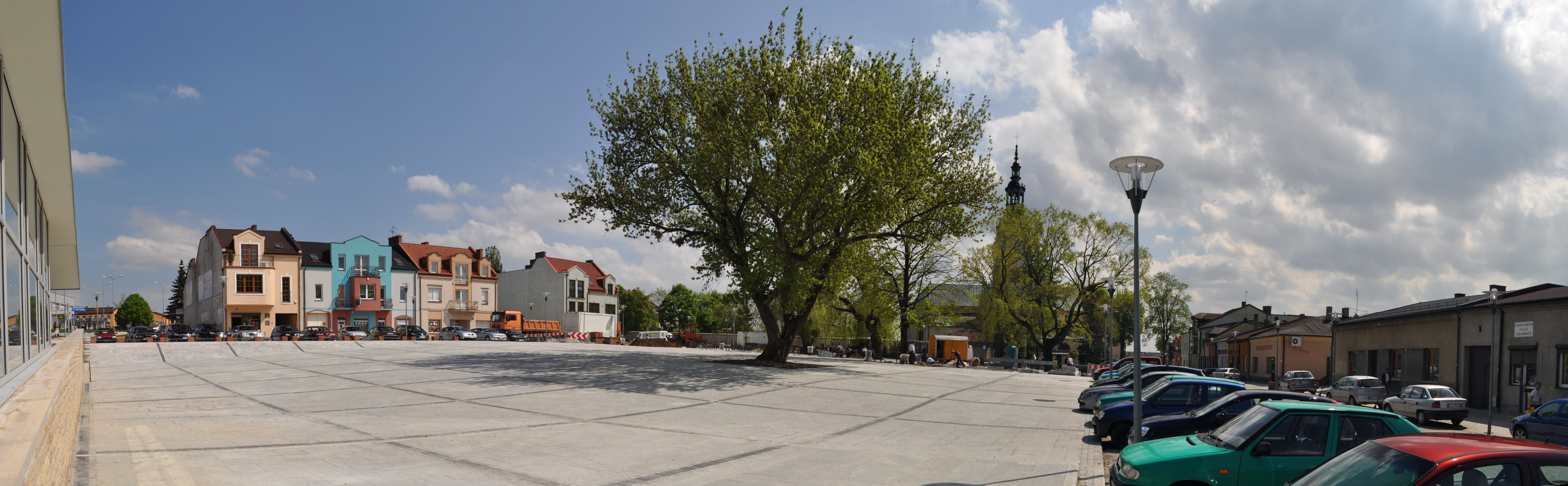 Market place in Kłobuck